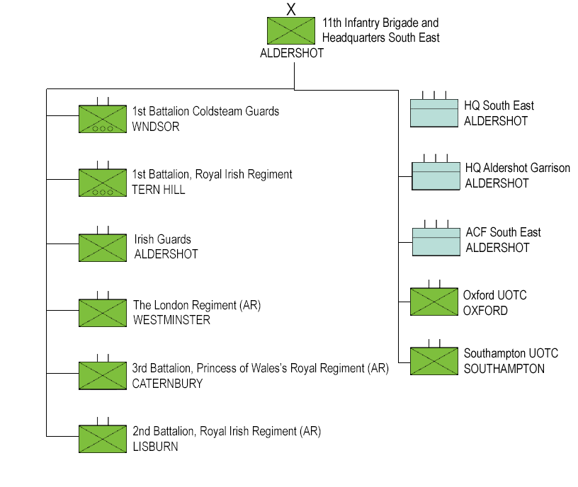 11 Infantry Brigade Graphic 2020